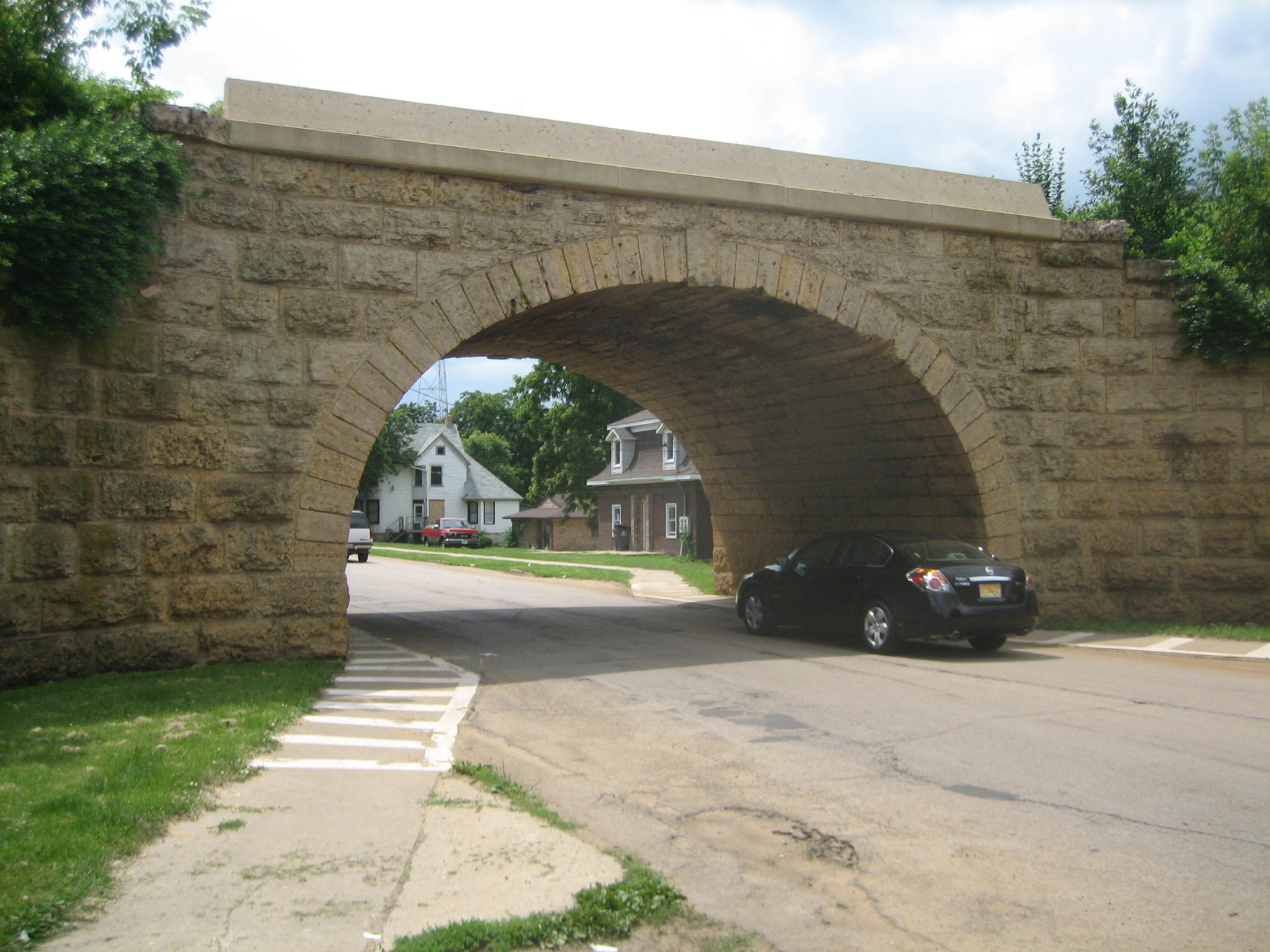 Illinois Central Stone Arch Railroad Bridges, bridge over First Street, Dixon, Illinois. U.S. National Register of Historic Places